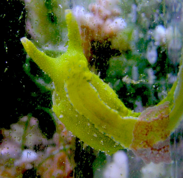 Specimen of Oxynoe olivacea feeding on Caulerpa racemosa. Photographed in the reef aquarium of aquarist Mike Giangrasso.